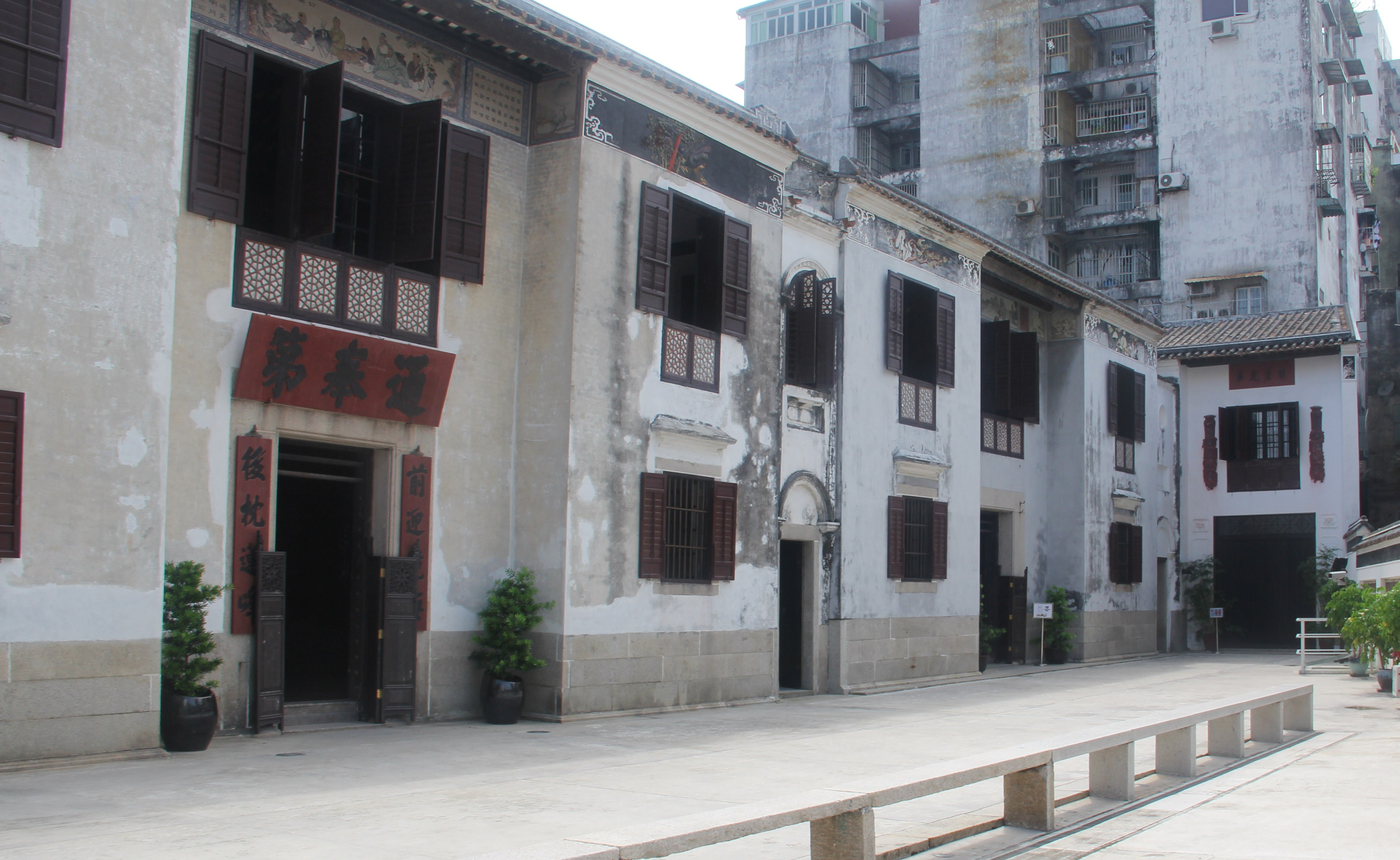 Mandarins House, Macau